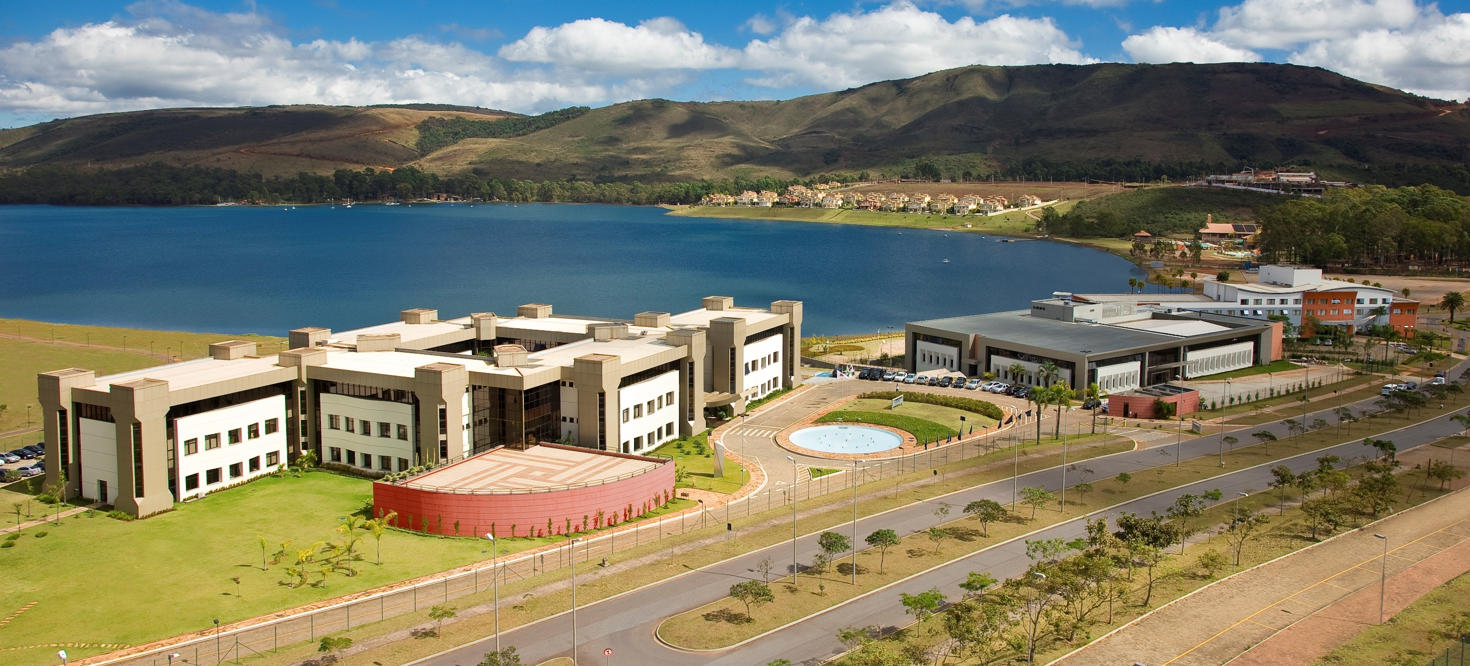 SKEMA Business School - Brazilian Campus